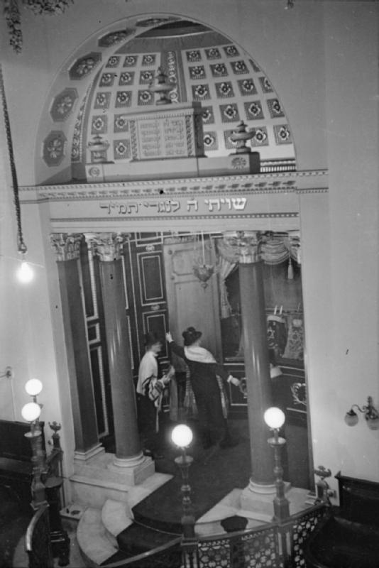 The Great Synagogue After 250 Years, Dukes Place, London, 1941 At the Great Synagogue, the doors of the Ark are opened to reveal the remaining 3 Scrolls of the Law. Before the War, between 20 and 30 Scrolls had been kept here, but now only 3 are left, as the rest have been sent away to places of safety.